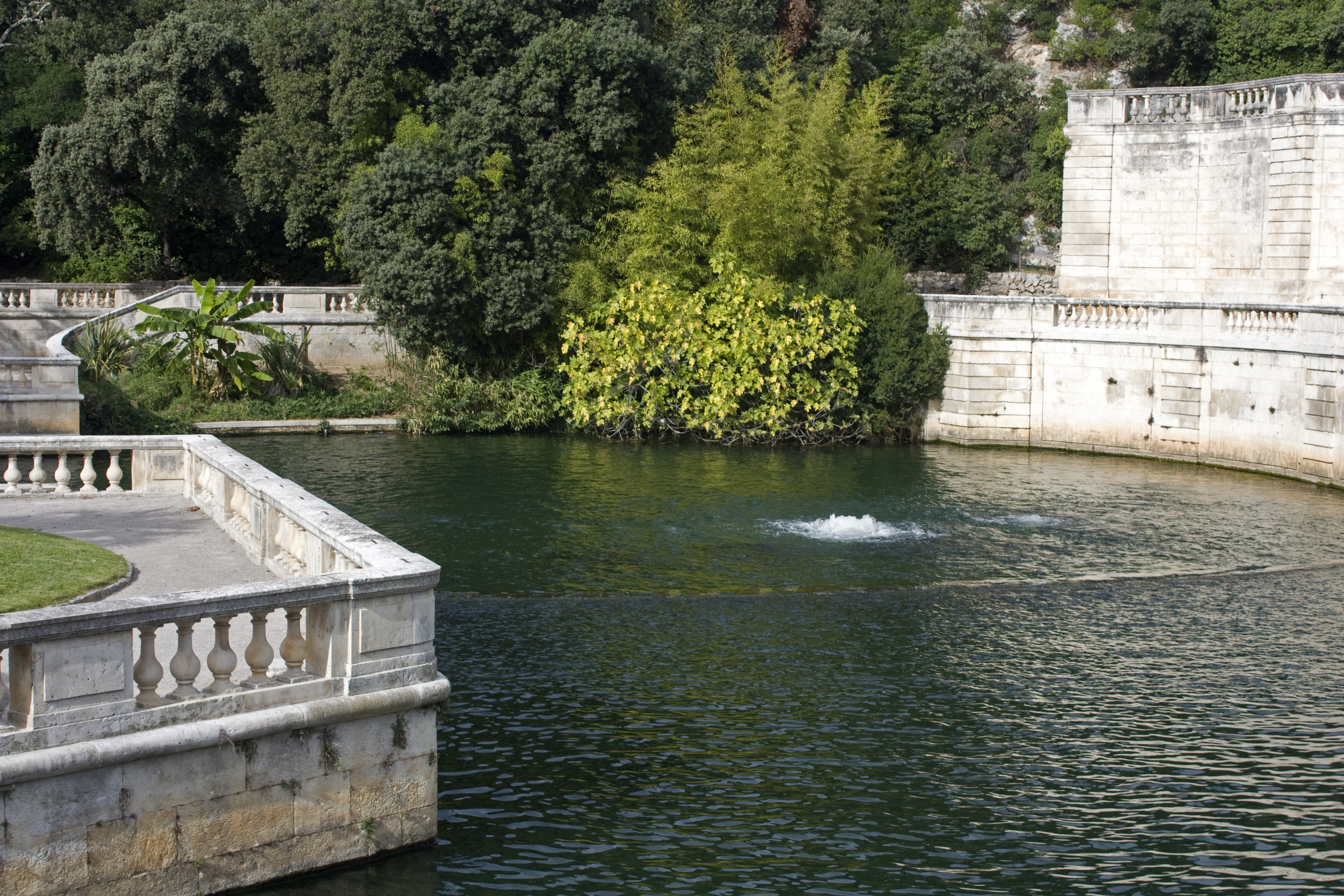 The bubbling resurgence of The Fountain